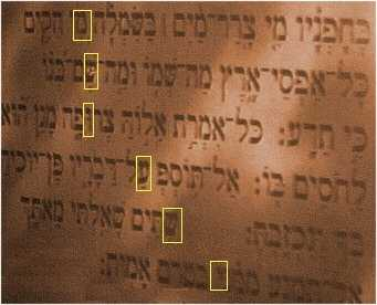 Proverbs 30:4 Jesus